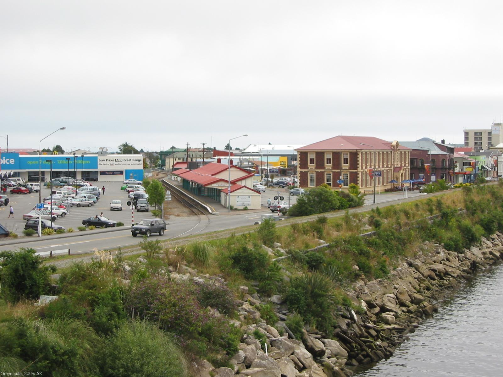 Panorama of Greymouth, New Zealand.